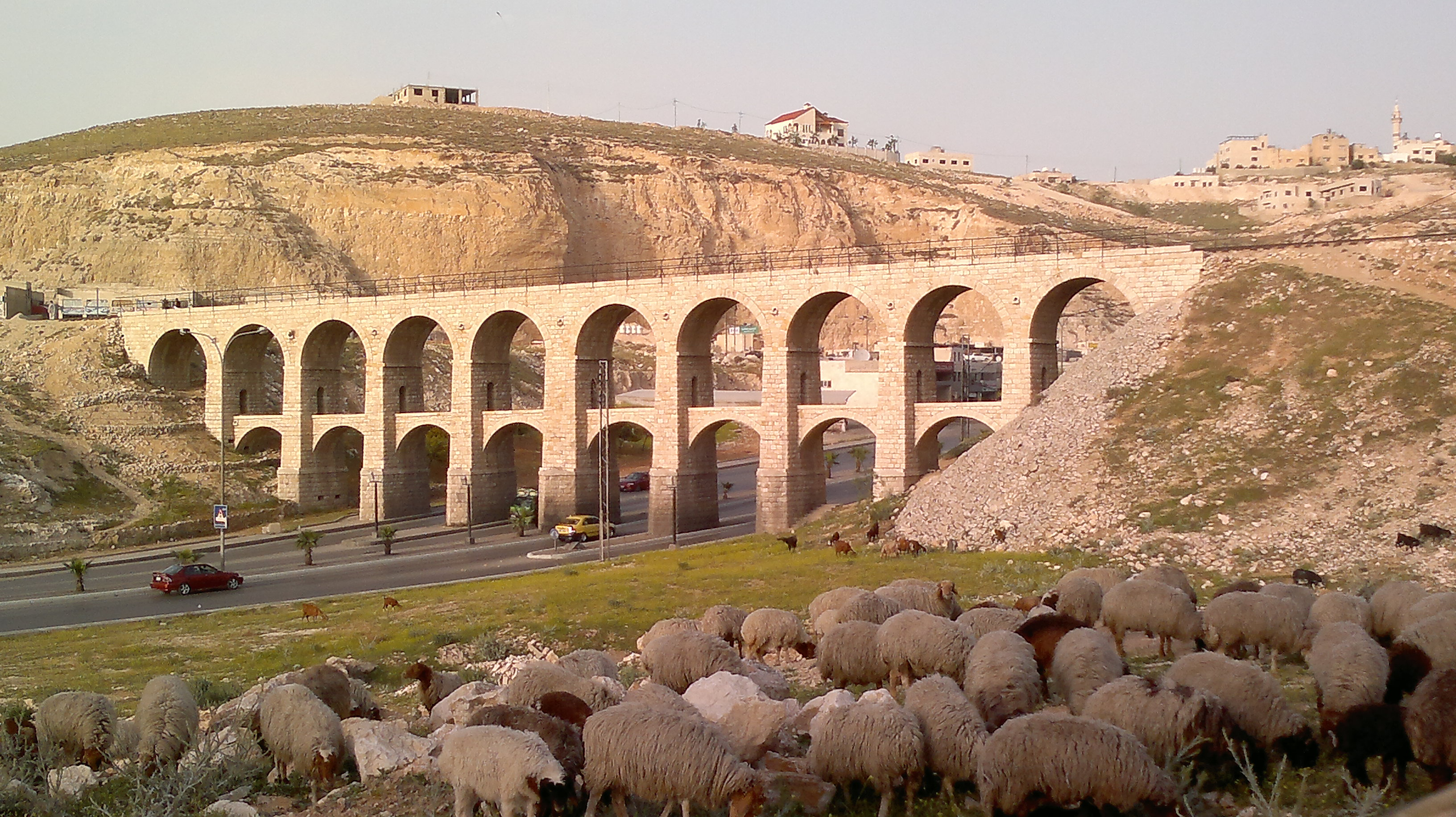 Amman sheep, near The Ten Archs.